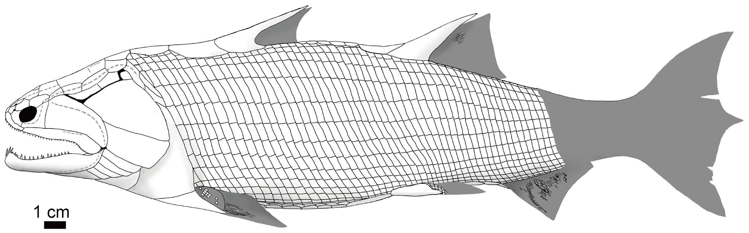 Revised restoration of Guiyu oneiros in lateral view.